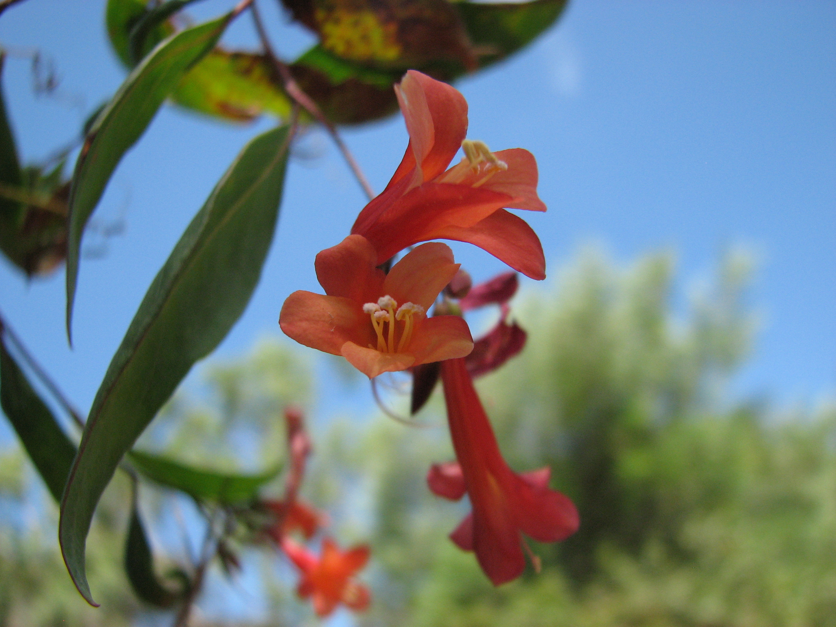 Marianthus erubescens" (cultivated, labelled as Billardiera erubescens), Maranoa Gardens, Balwyn, Victoria, Australia